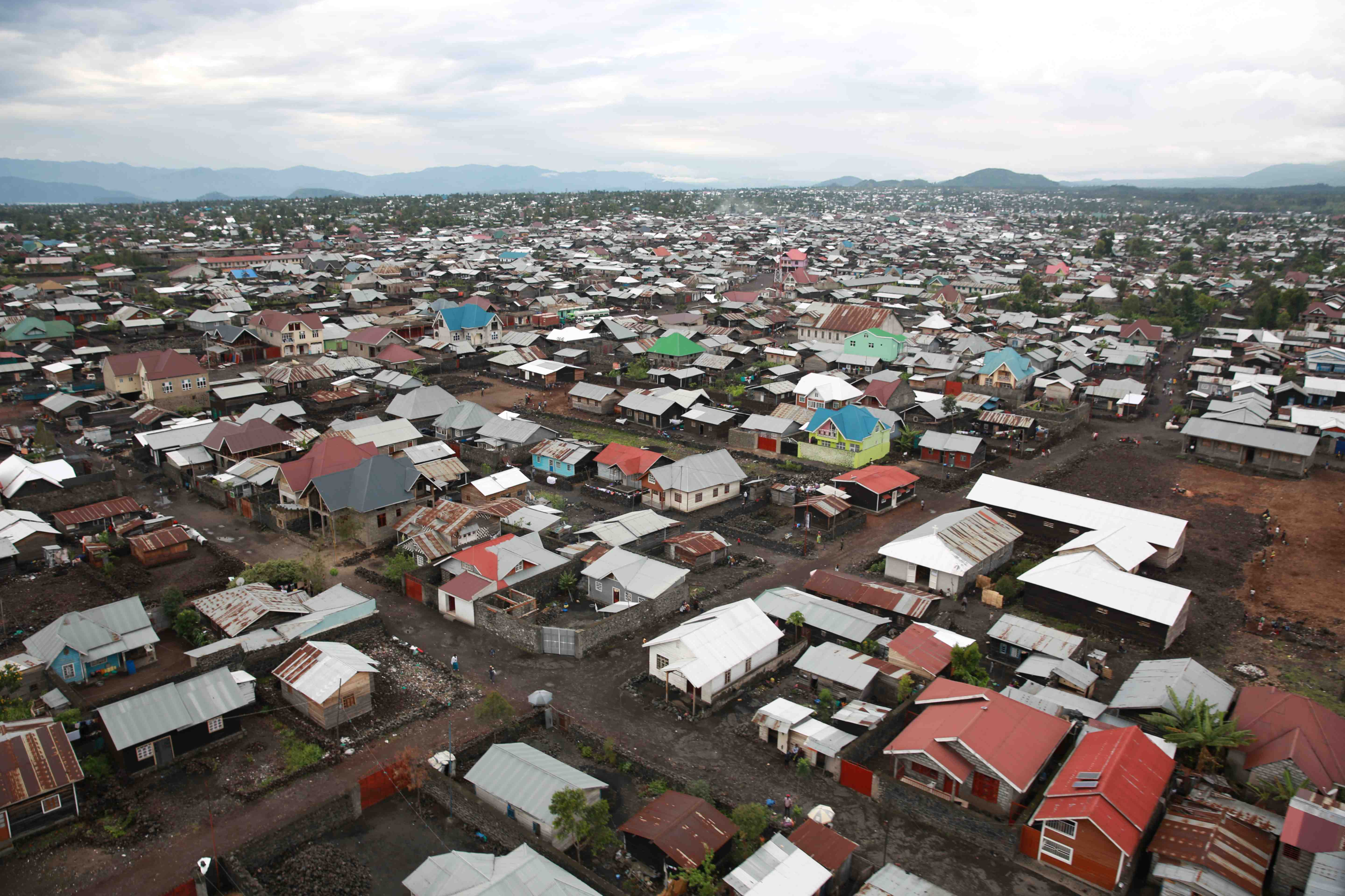 15 novembre 2014. Goma, Nord-Kivu, RD Congo. Une vue aérienne de la ville de Goma. Photo MONUSCO/Abel Kavanagh = 15 November 2014. Goma, North-Kivu province, DR Congo. Air view of the city of Goma. Photo MONUSCO/Abel Kavanagh